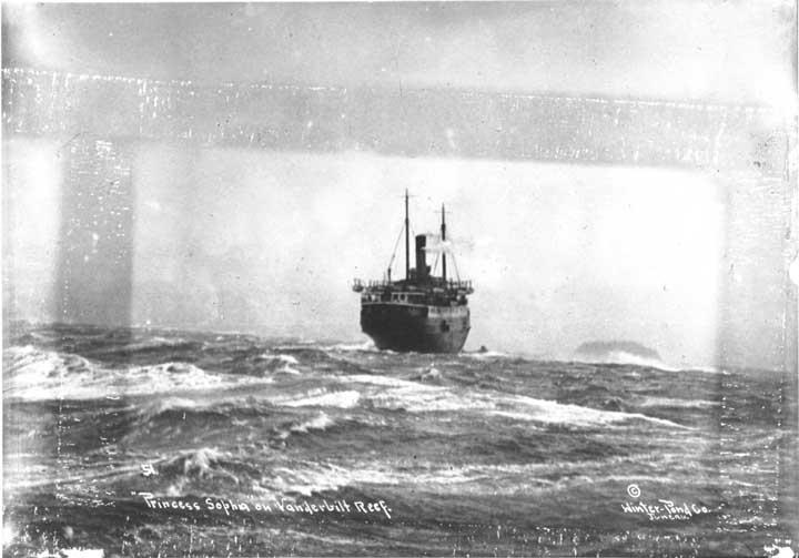 Princess Sophia (steamship) on Vanderbilt Reef. This photograph appears to have been housed in an album, causing it to fade where not protected by the album paper. It would have been set in the album to "correct" the angled horizon (this probably having been caused by the original photo being taken from a small boat in the waves.